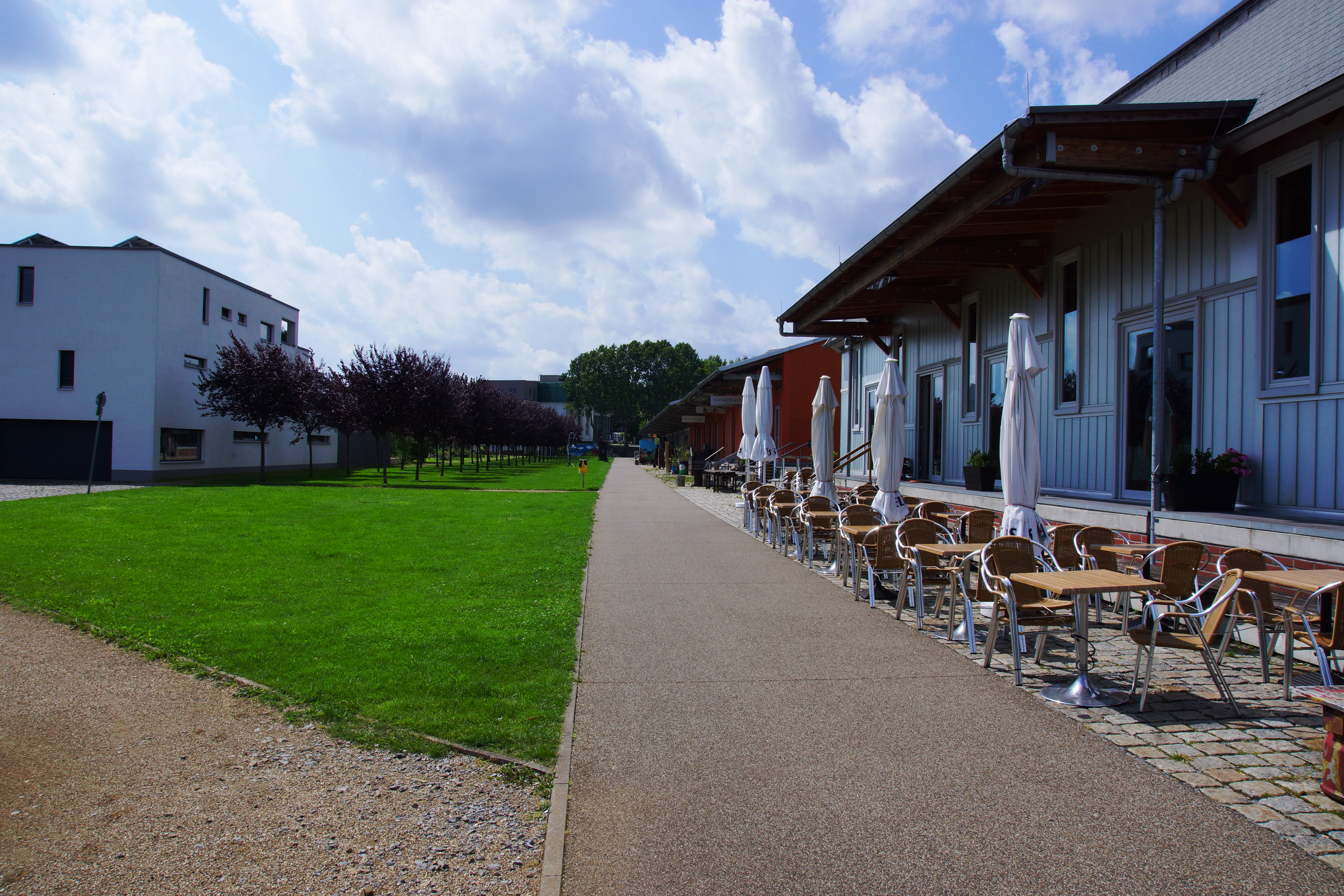 A part of Solingen - Corkscrew route